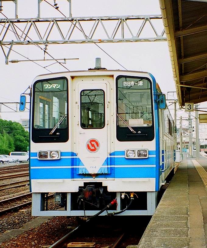 Ise Railway Type ISE2 Diesel railcar.(Japan).